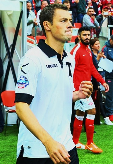 Diniyar Bilyaletdinov